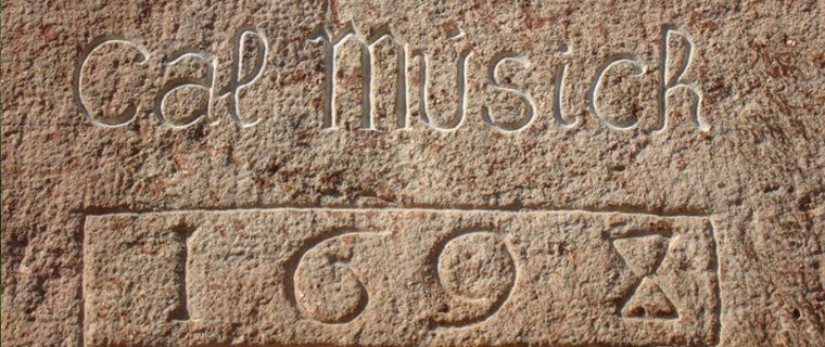 Cal Músich House Inscription-Tagamanent-Catalonia